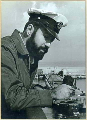 Leshem as LTCMR manuevering his submarine INS Dolphin